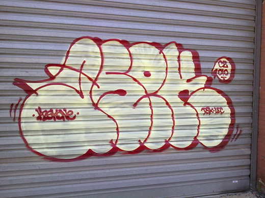 Throw-up (asek-azek)